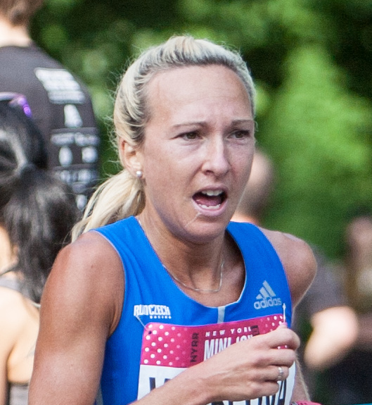 Elite women – NYRR Mini 10K 2018